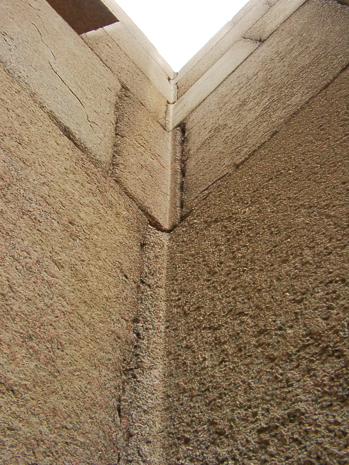 Corner blocks in Khafre's valley temple